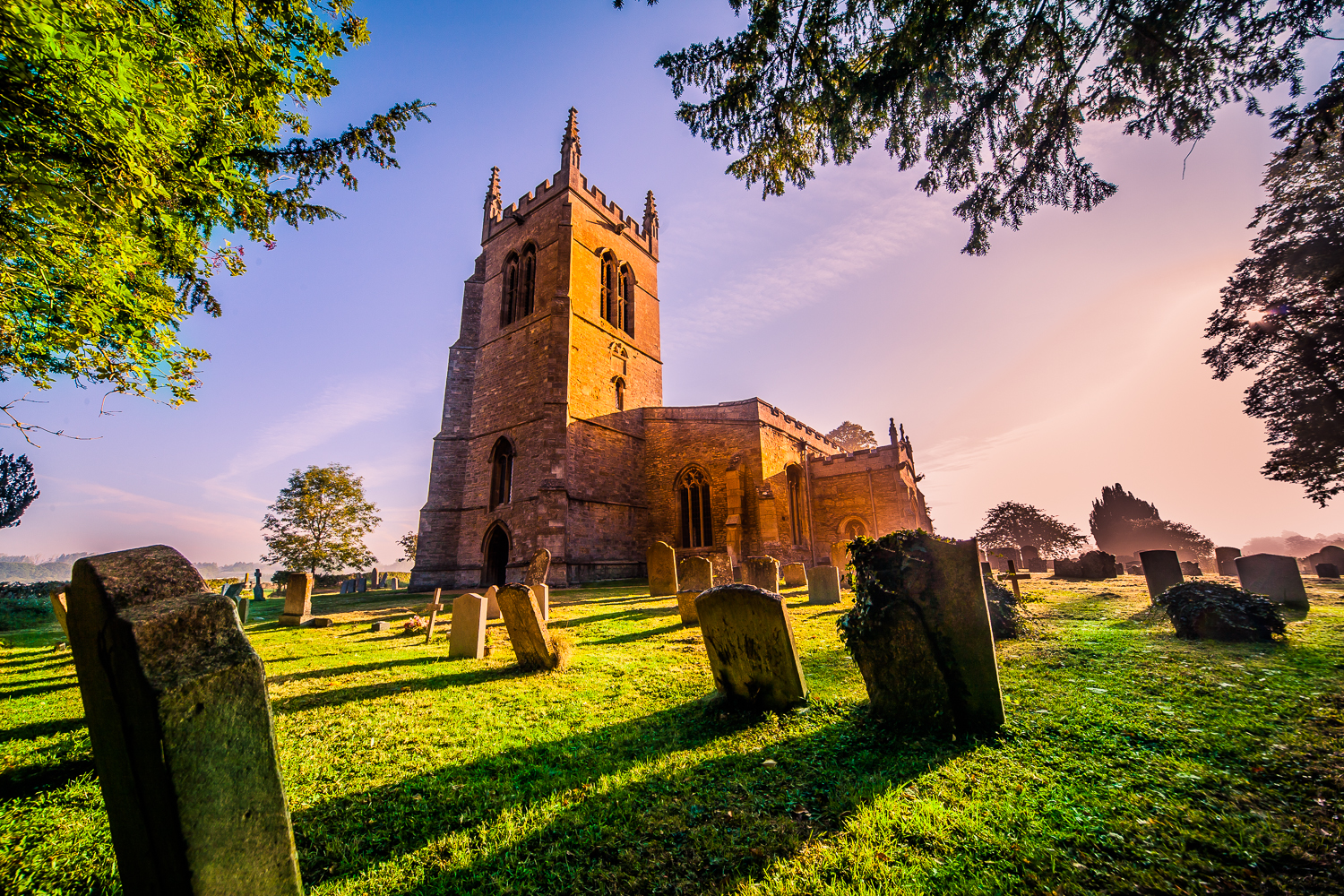 All Saints' parish church, Riseley, Bedfordshire, seen from the southwest